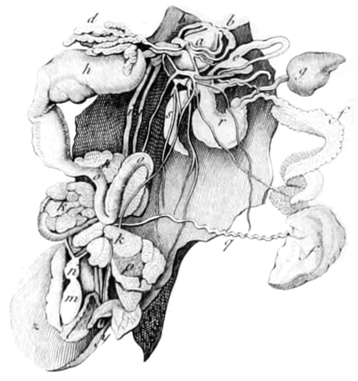 Drawing of anatomy of Parmacella olivieri from its type description.